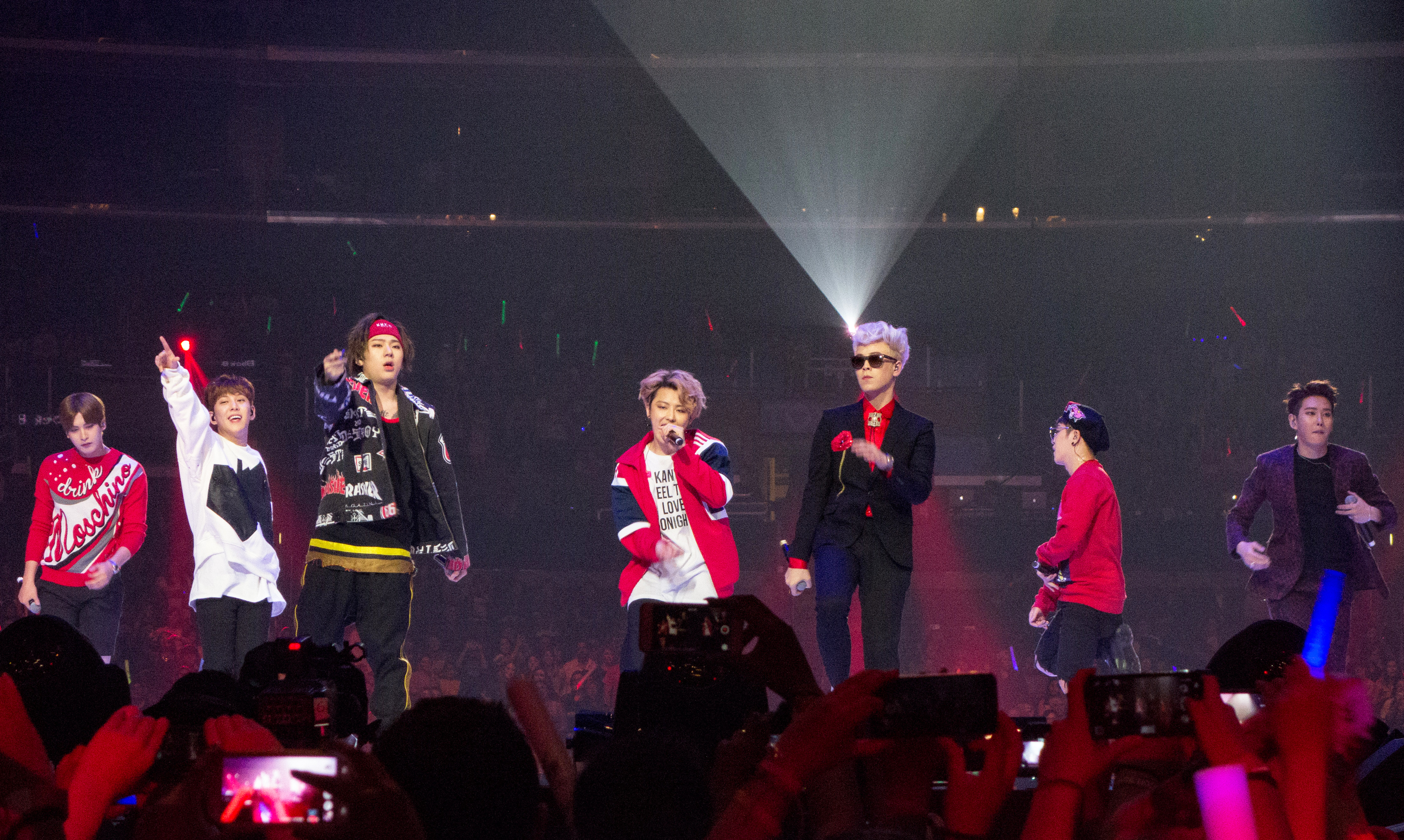 A photo of Block B performing at the 2015 KCON event in Los Angeles.